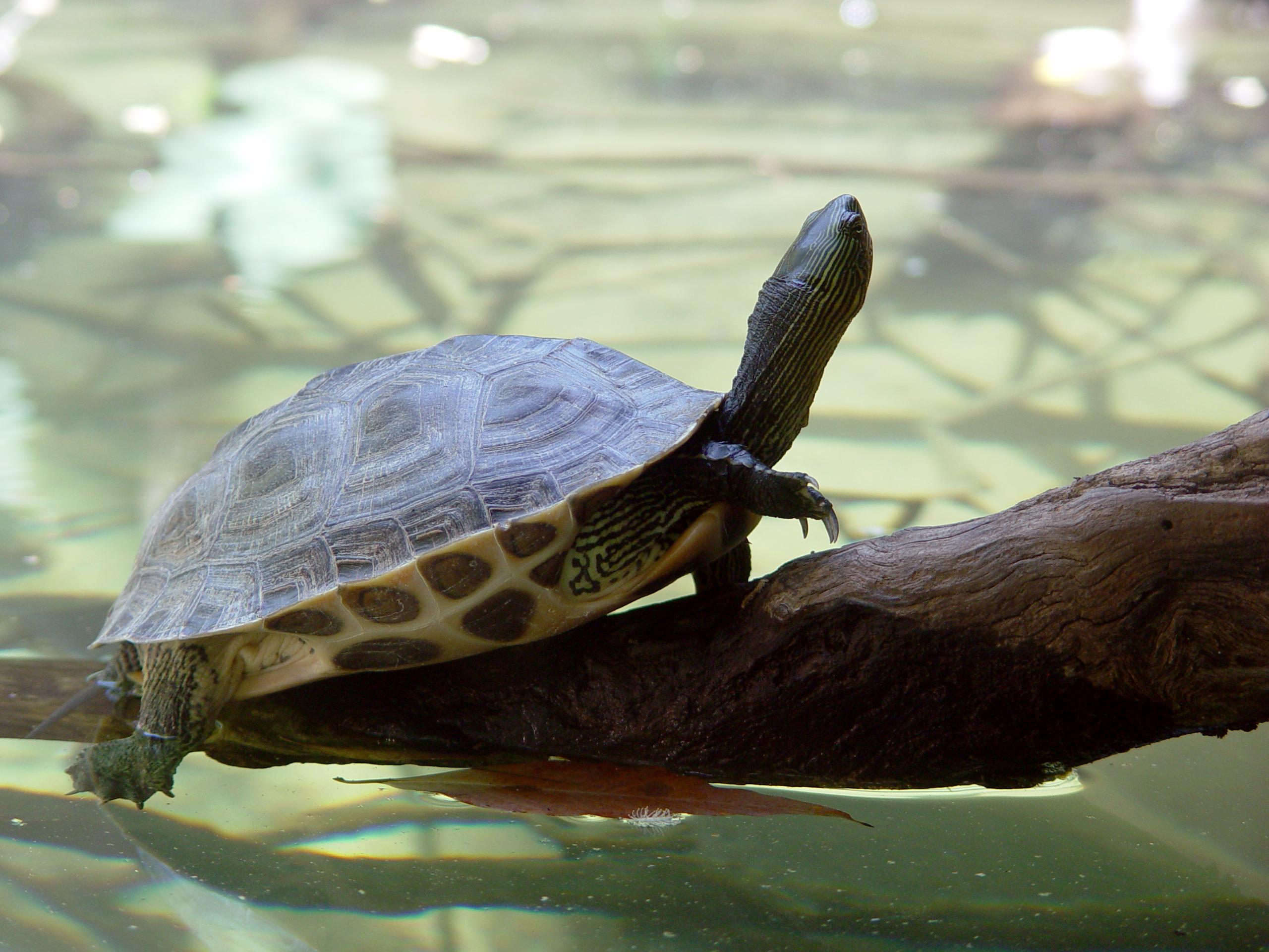 Chinese stripe-necked turtle (Ocadia sinensis syn. Mauremys sinensis ), San Diego Zoo